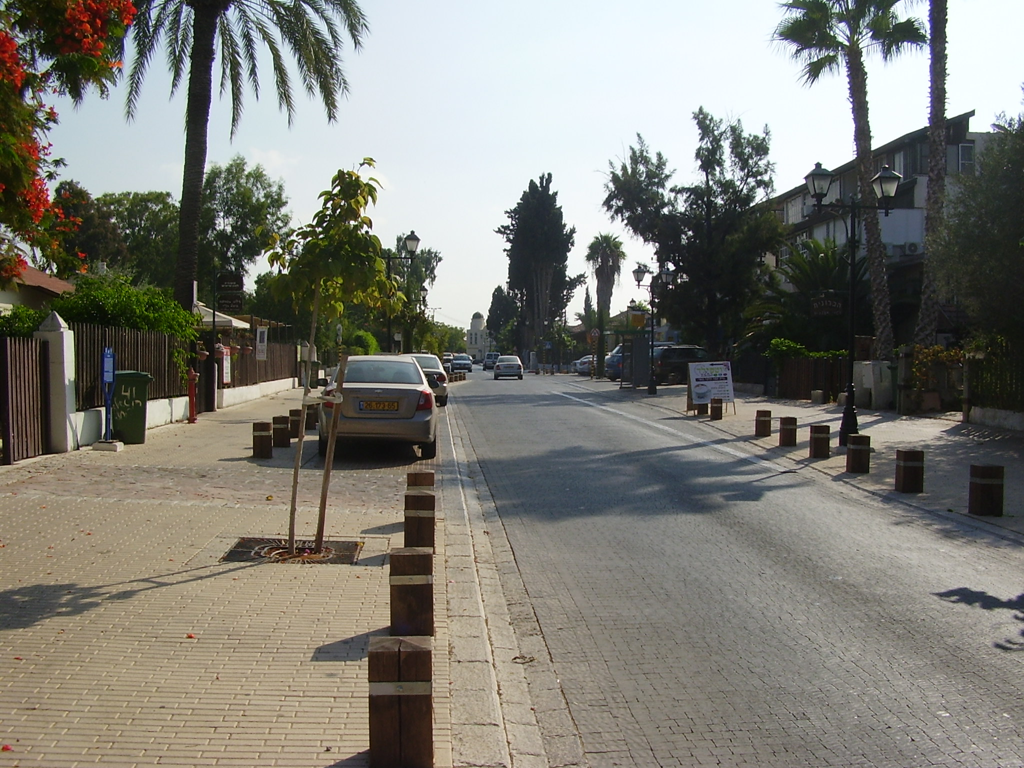 main street in mazkeret batya